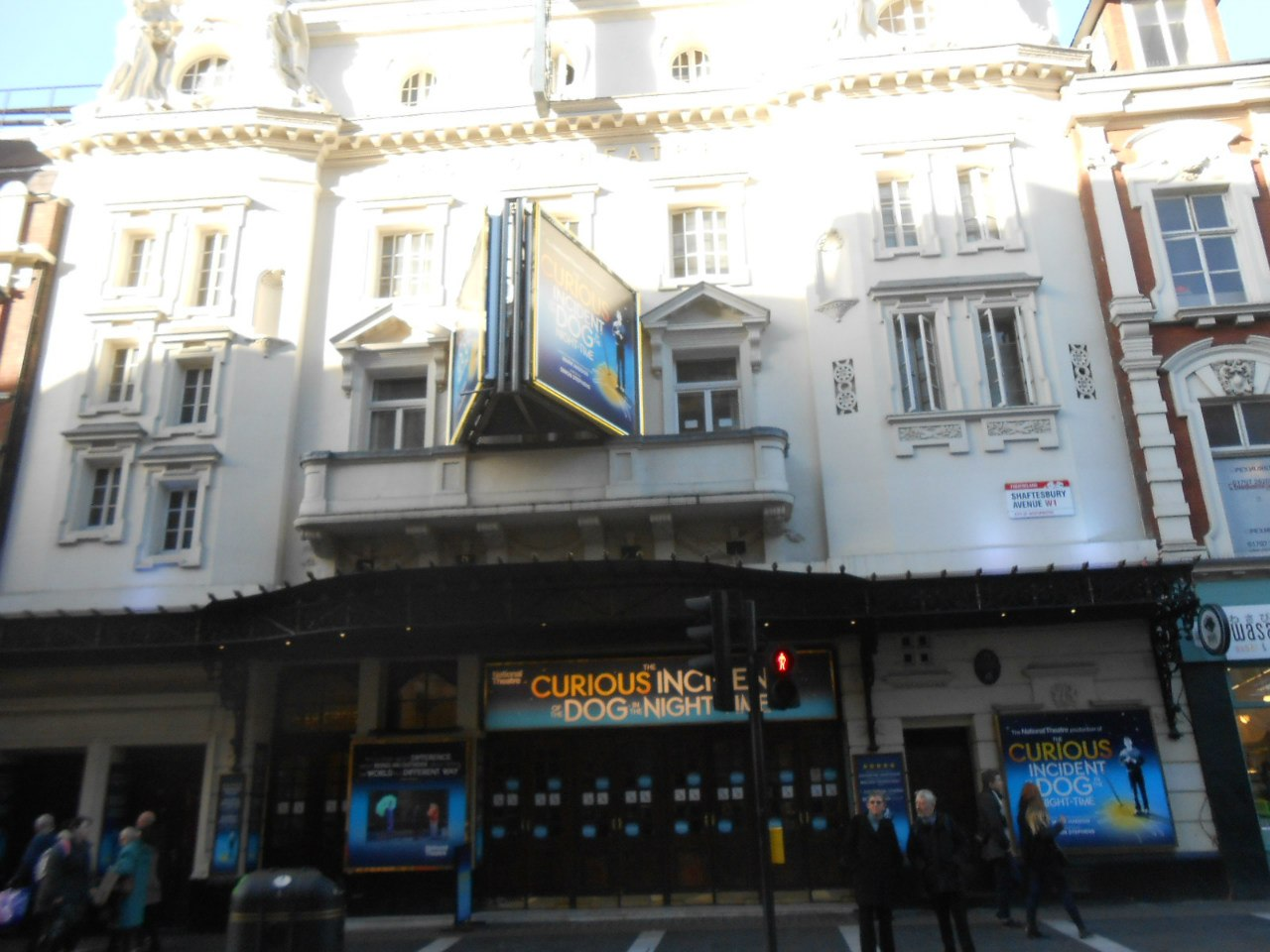 Apollo theatre, Shaftesbury avenue, London